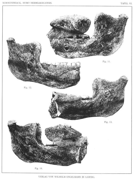 First description of Homo heidelbergensis: type specimen from Mauer (near Heidelberg, Germany); original condition with adherent material